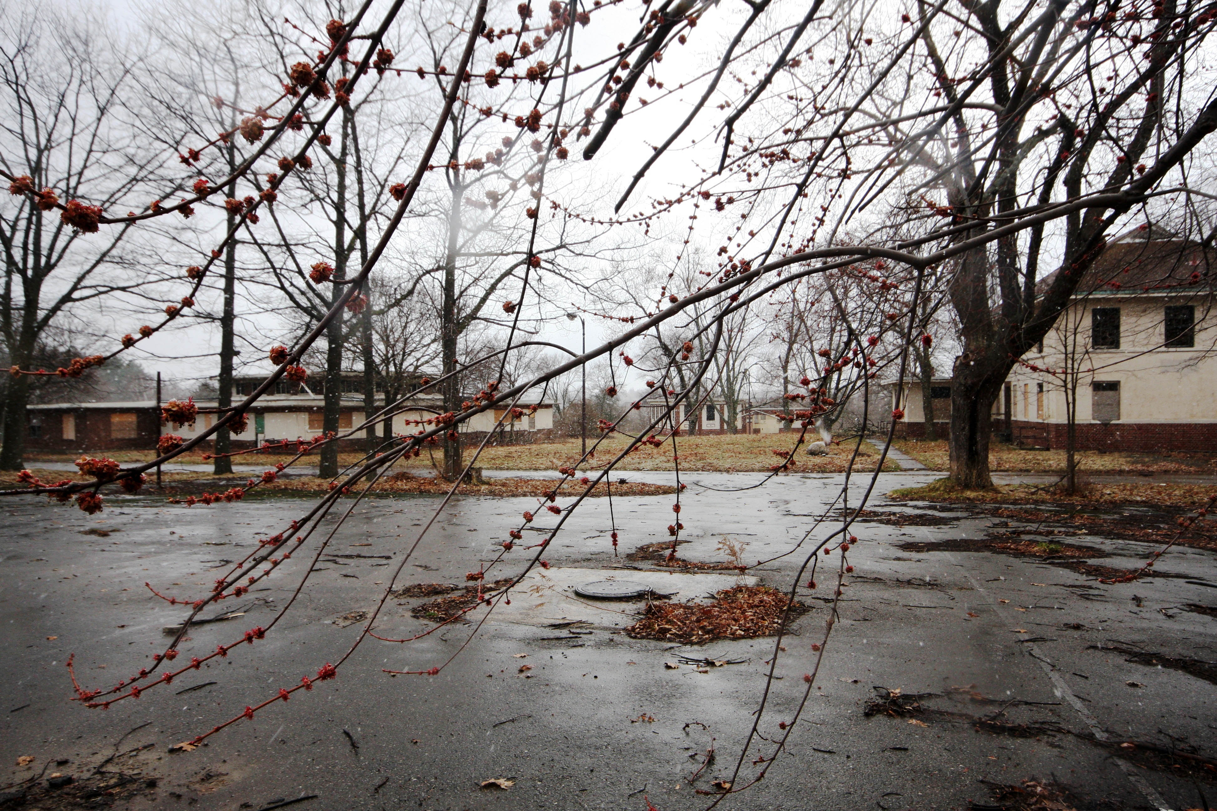 Former Bowmanville Boys Training School/Camp 30